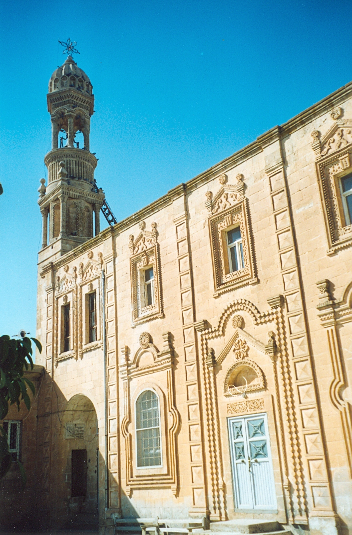 Mor Sharbel Syriac Orthodox church, Midyat, Turkey.